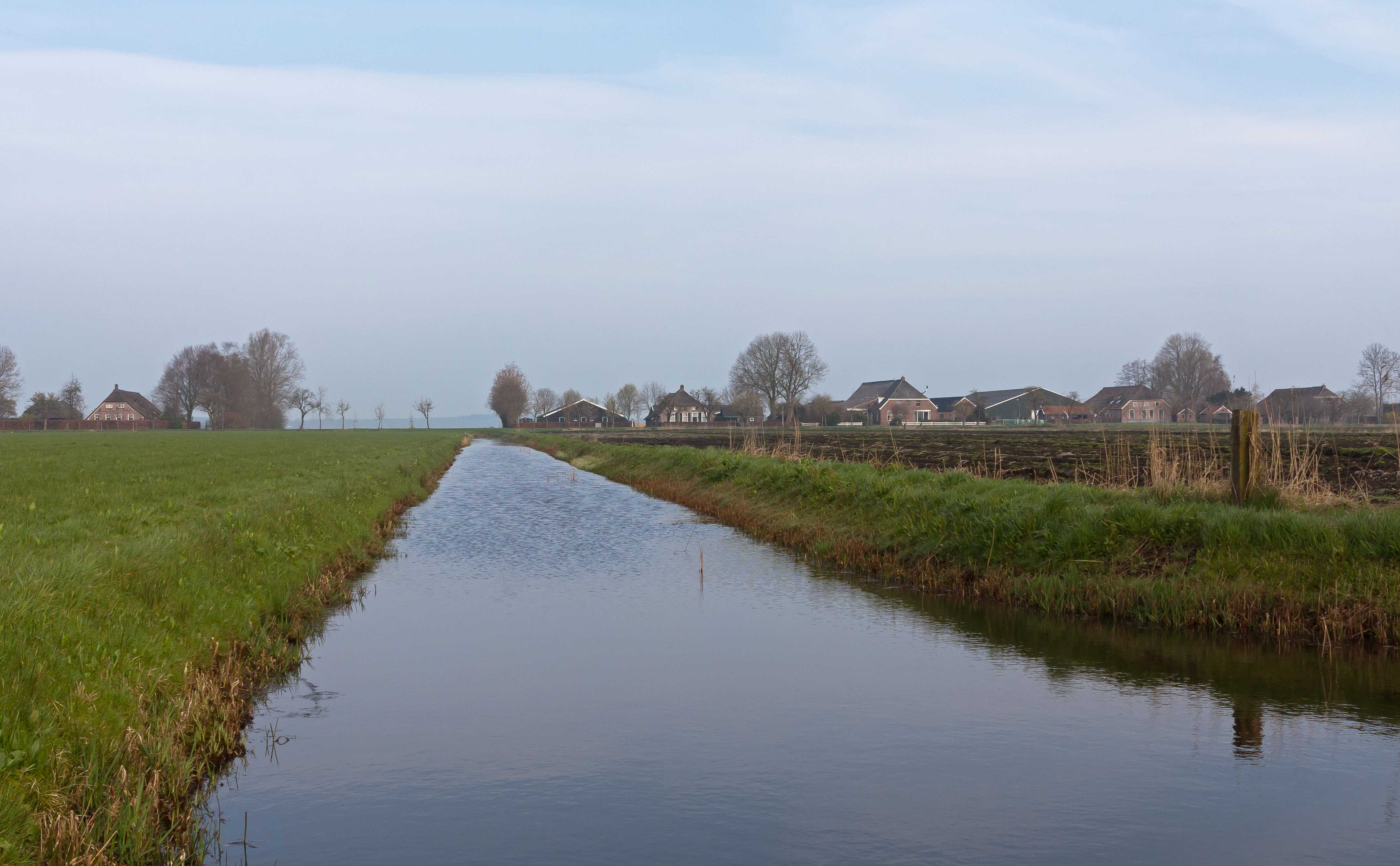 between Oosteinde and Ruinen, canal in the mire